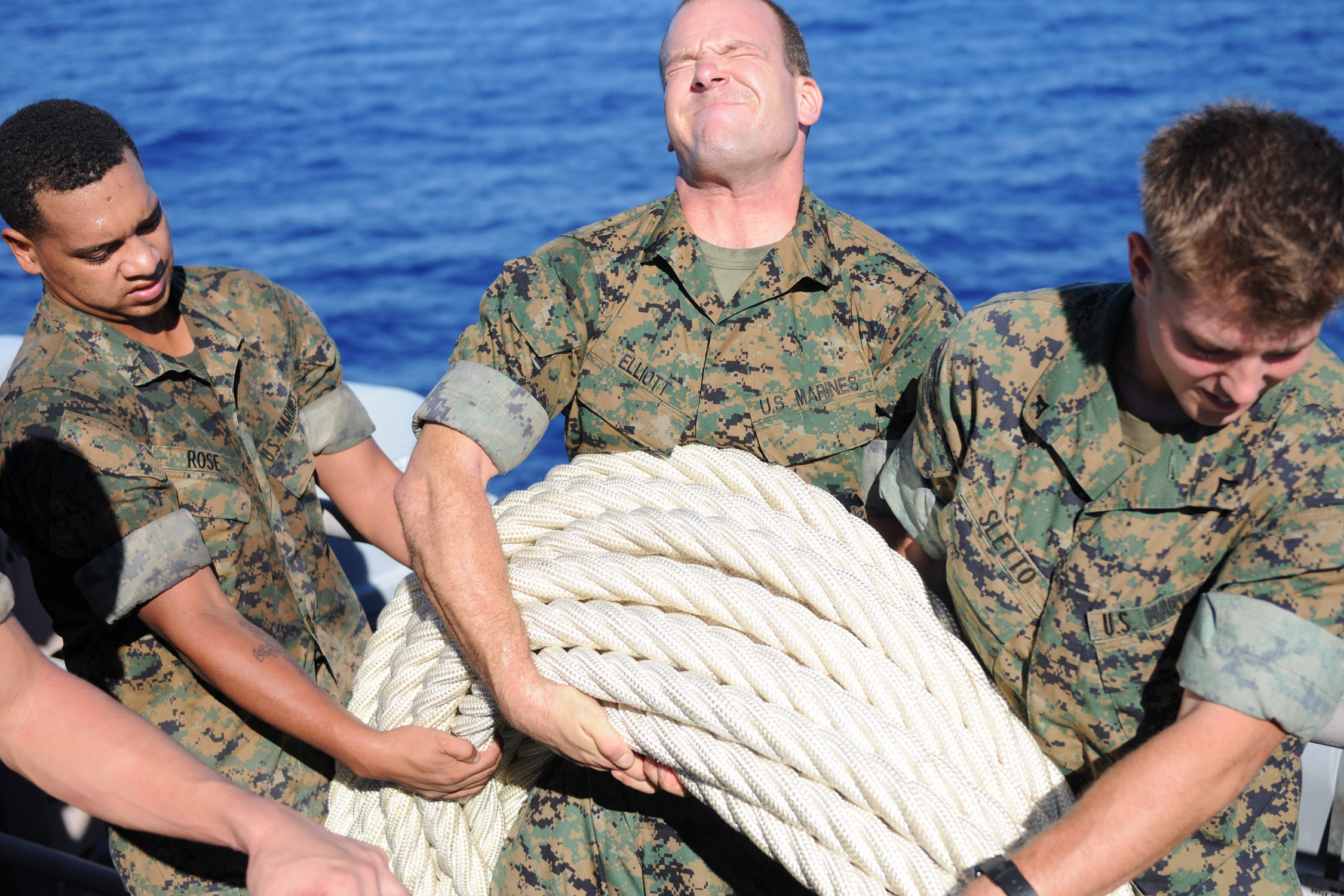 PHILIPPINE SEA (Sept. 15, 2010) Marines assigned to the 31st Marine Expeditionary Unit (31st MEU) carry a 600-foot Kevlar mooring line to the fantail of the forward-deployed amphibious assault ship USS Essex (LHD 2). Essex is part of the forward-deployed Essex Amphibious Ready Group and is participating in Valiant Shield 2010, an integrated joint training exercise designed to enhance interoperability between U.S. forces. (U.S. Navy photo by Mass Communication Specialist 3rd Class Casey H. Kyhl/Released)